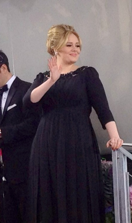 Crop from a photo, see below.